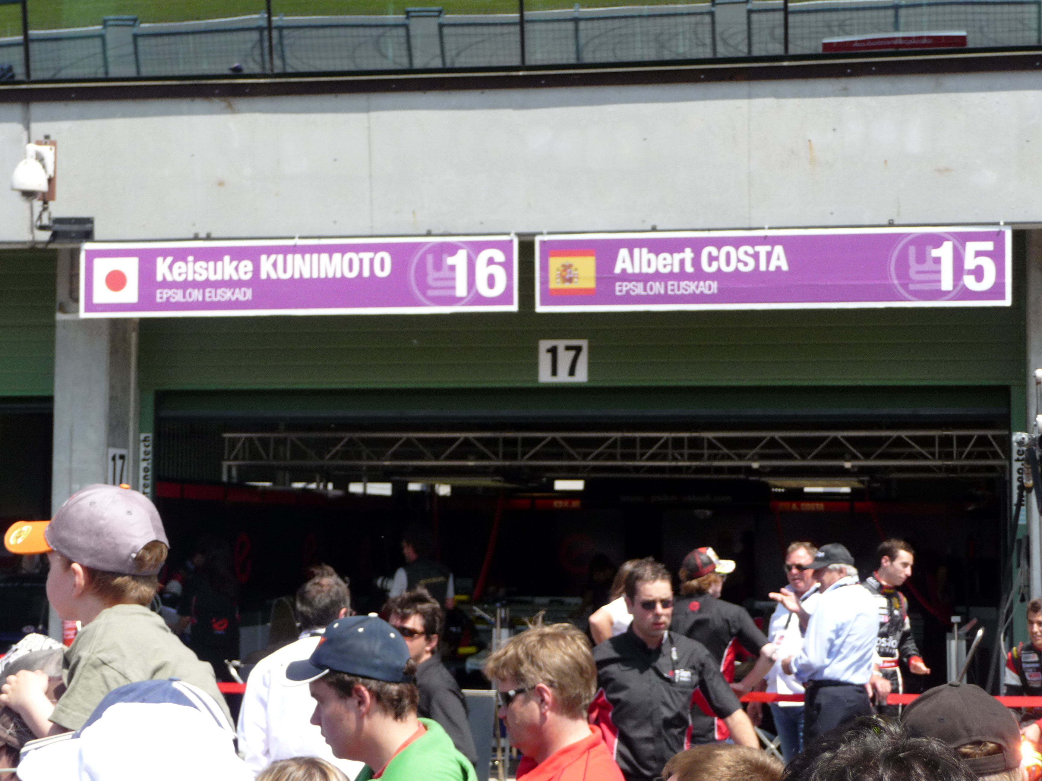 Garage of Keisuke Kunimoto and Albert Costa, Pit walk, 2010 Brno World Series by Renault -10 -5 -3 -2 ◄ ► +2 +3 +5 +10